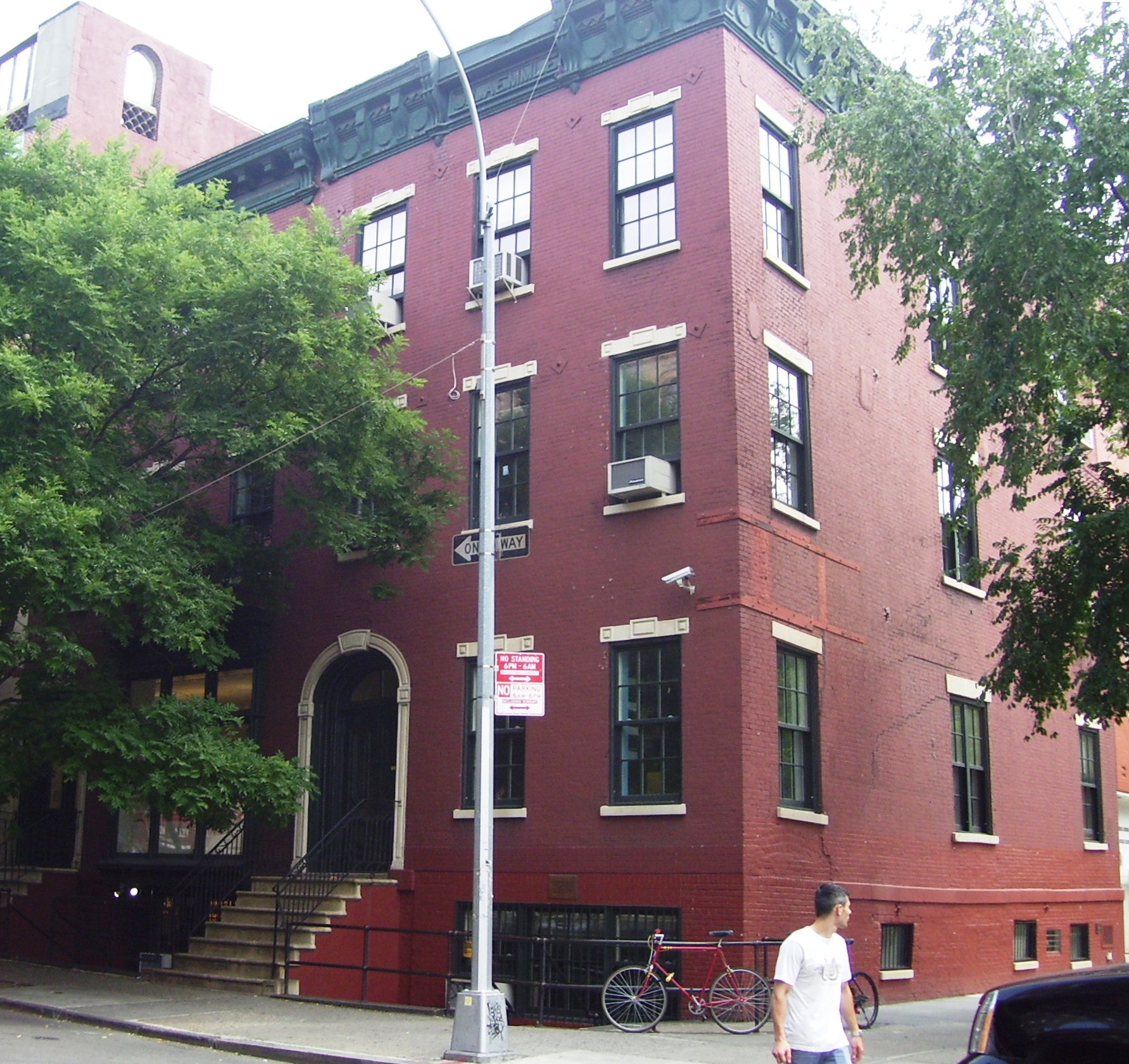 The Little Red School House building at 200 Bleecker Street on the corner of Sixth Avenue in the Greenwich Village neighborhood of Manhattan, New York City, was built c.1900. (Source: NYC GIS map)